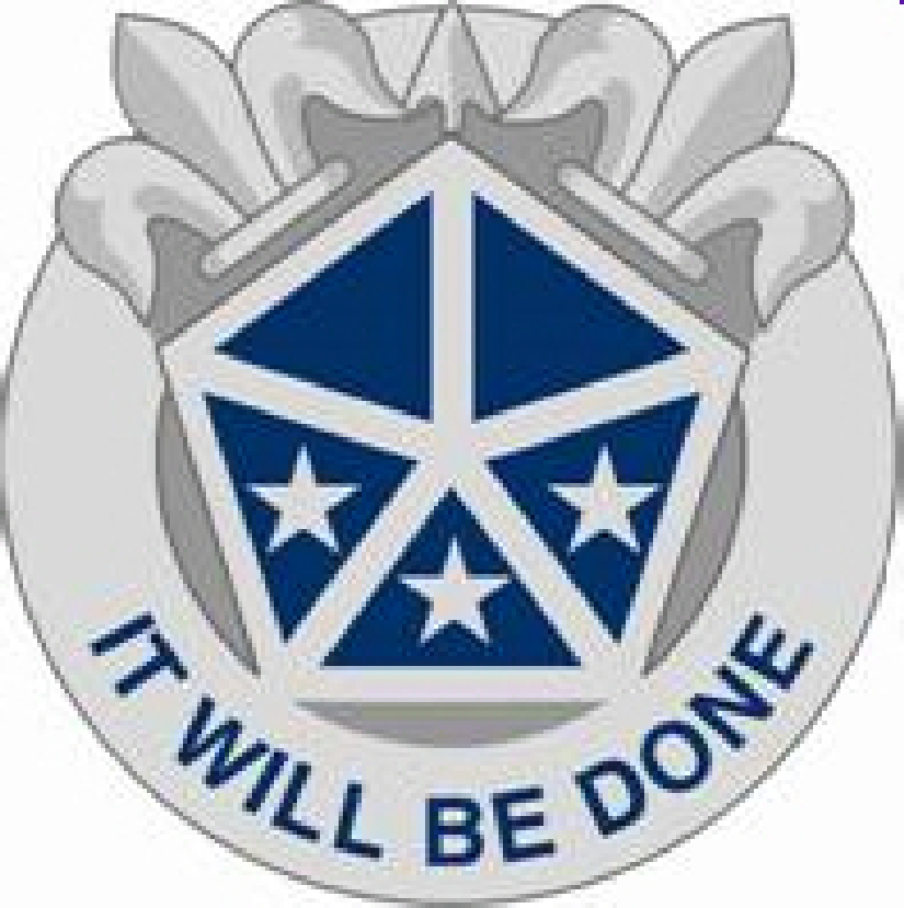 005th Corps Distinctive Unit Insignia